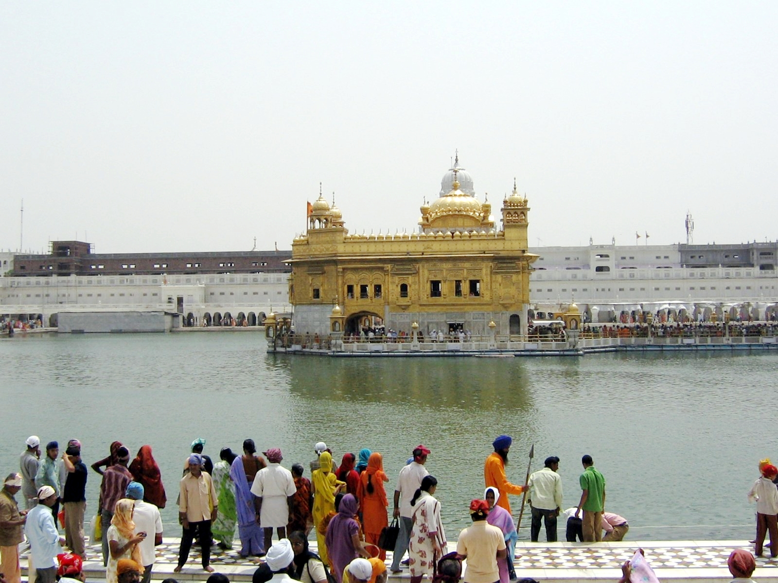 Harmandir Sahib (also known as Golden Temple), Amritsar, India, seen from the main north entrance.